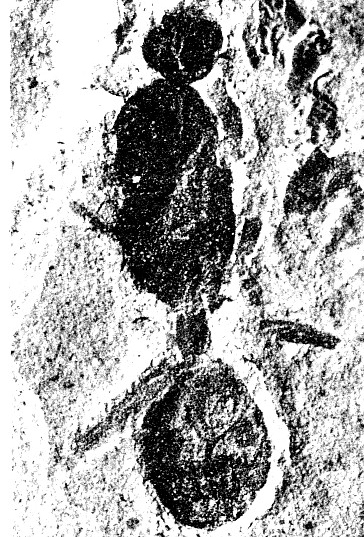 Eoformica pinguis fossil specimen, incertae sedis in the family Formicidae